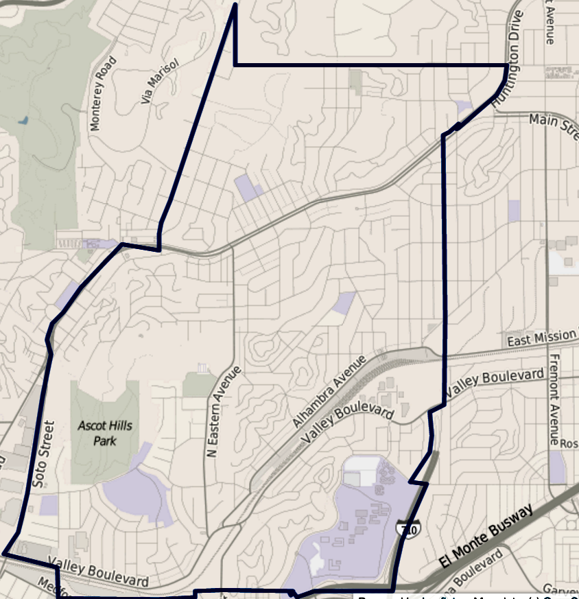 Map of El Sereno, California, as drawn by the Mapping L.A. project of the Los Angeles Times. Other information Note CC-by-SA reference in lower right corner of map on target page.